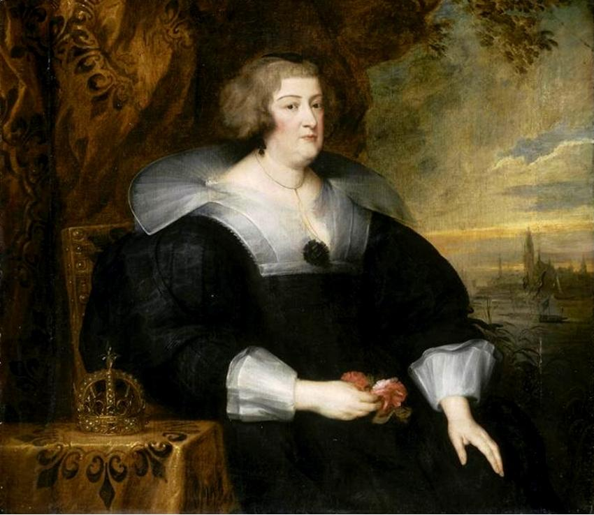 The exiled Queen Marie de Médicis with coronet overlooking Cologne